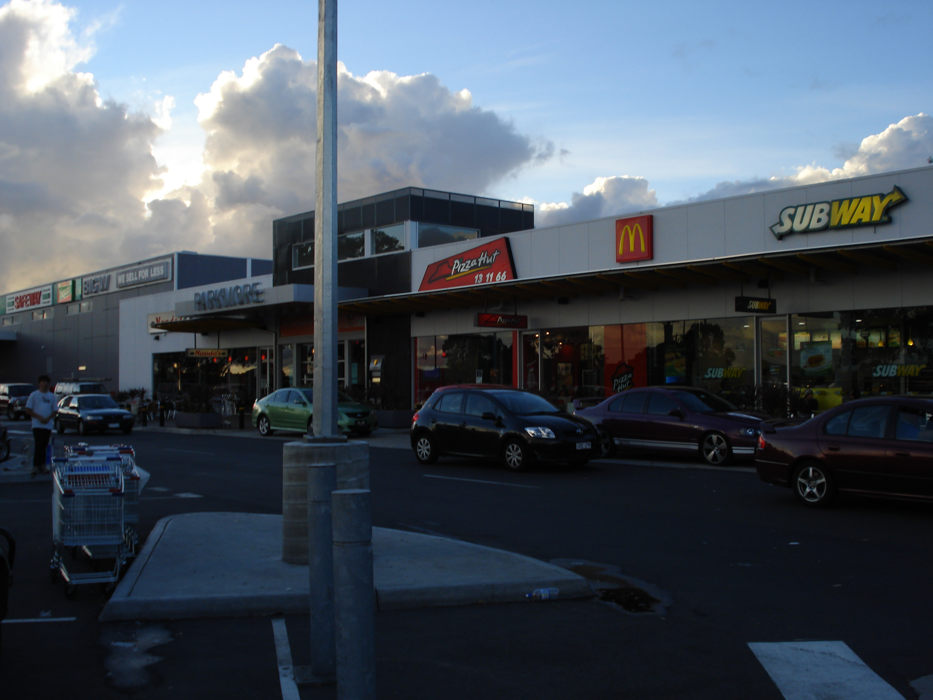 Parkmore SC broadview shot